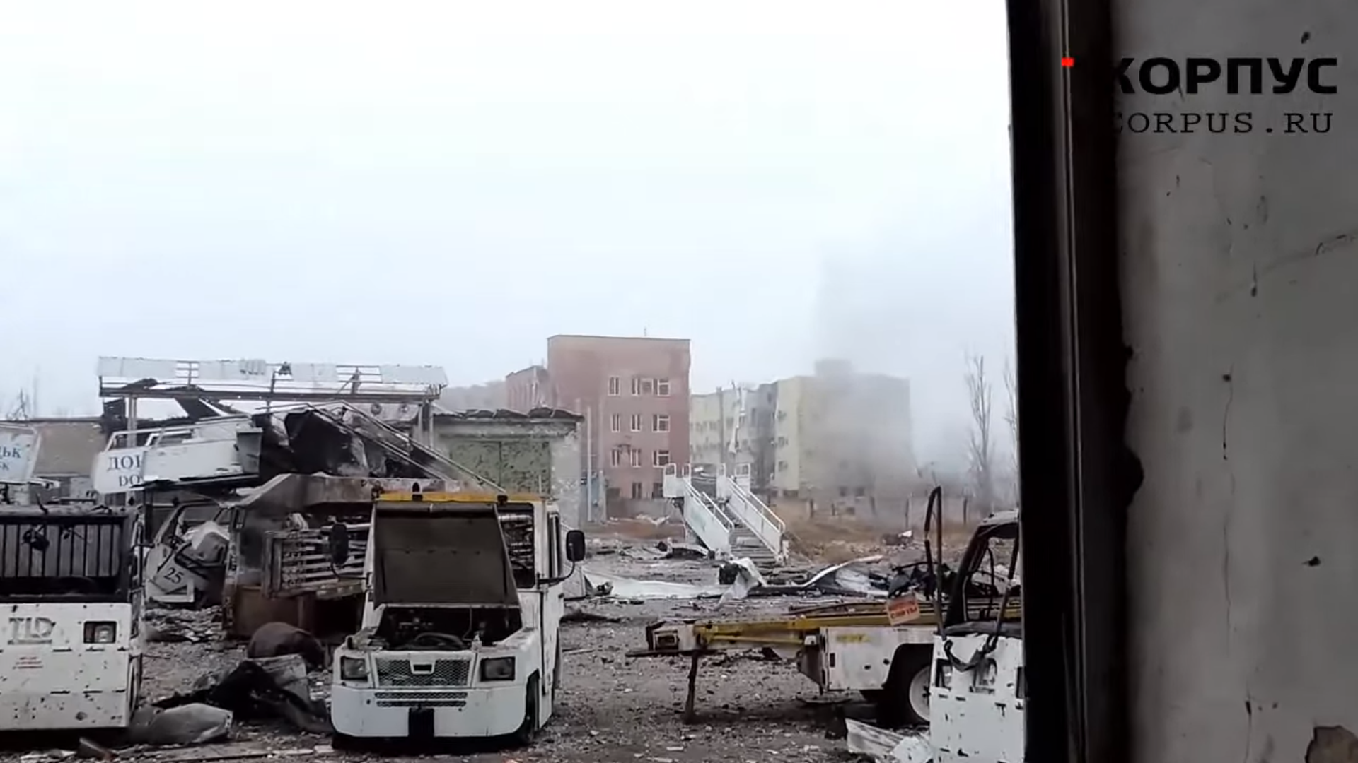 Ruins of the Donetsk Airport. The former hotels of it can be seen with artillery damage.